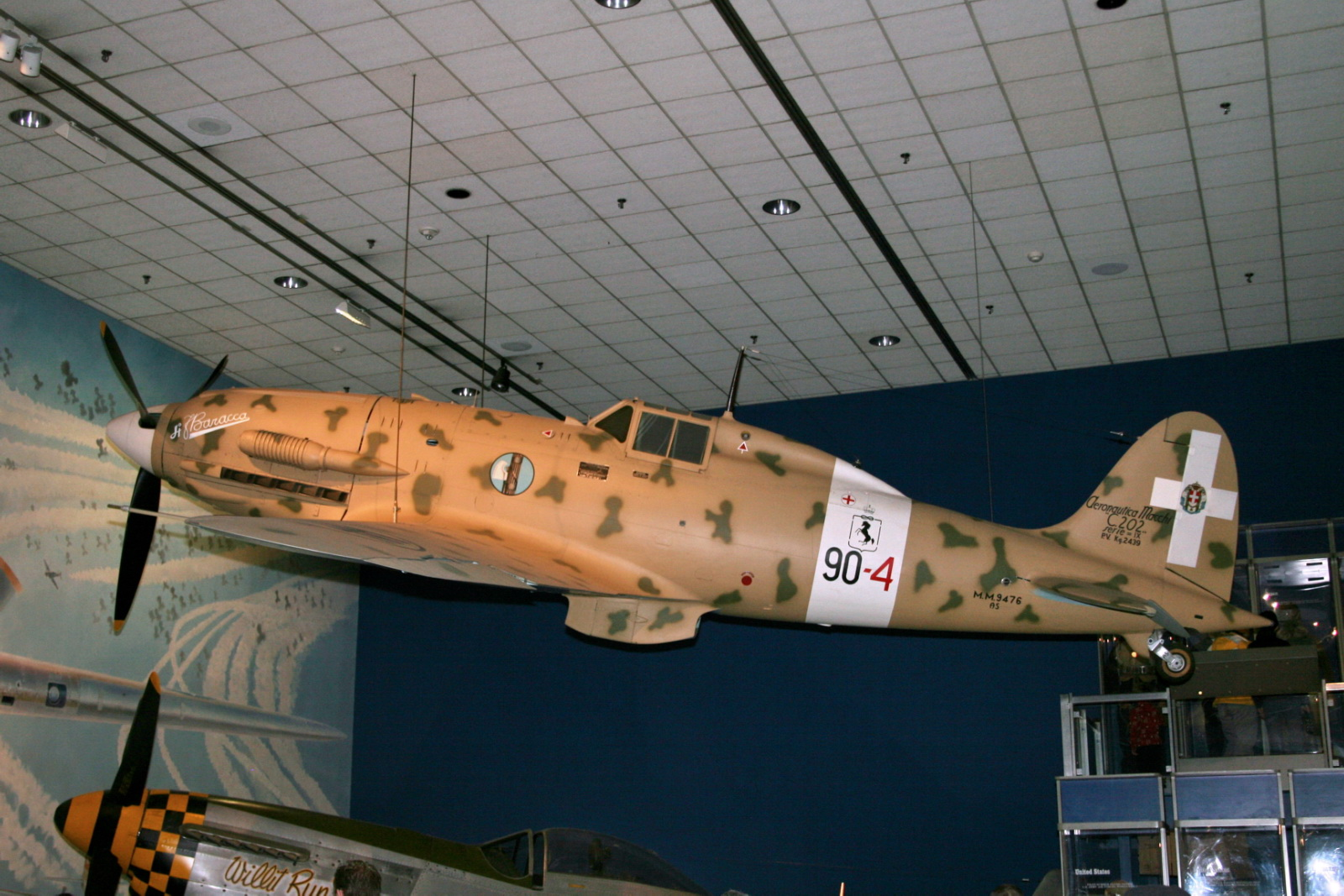 The Germans operated the C.202 in limited numbers and after 1943 it appeared in the small Allied Co-Belligerent Air Force that operated continuously against the Axis from the Italian Armistice to V-E Day. Postwar Folgores, modified to accept the more powerful DB 605 engine and redesignated C.205 Veltros, last served in the Egyptian Air Force in 1949. The Macchi C.202 in the National Air and Space Museum is one of only two remaining in the world. The early history of this airplane is obscure, but it was among many Axis aircraft brought to this country for evaluation at the Army's Air Technical Service Command at Wright Field, Ohio, and Freeman Field, Indiana. After evaluation, it remained in storage for years.